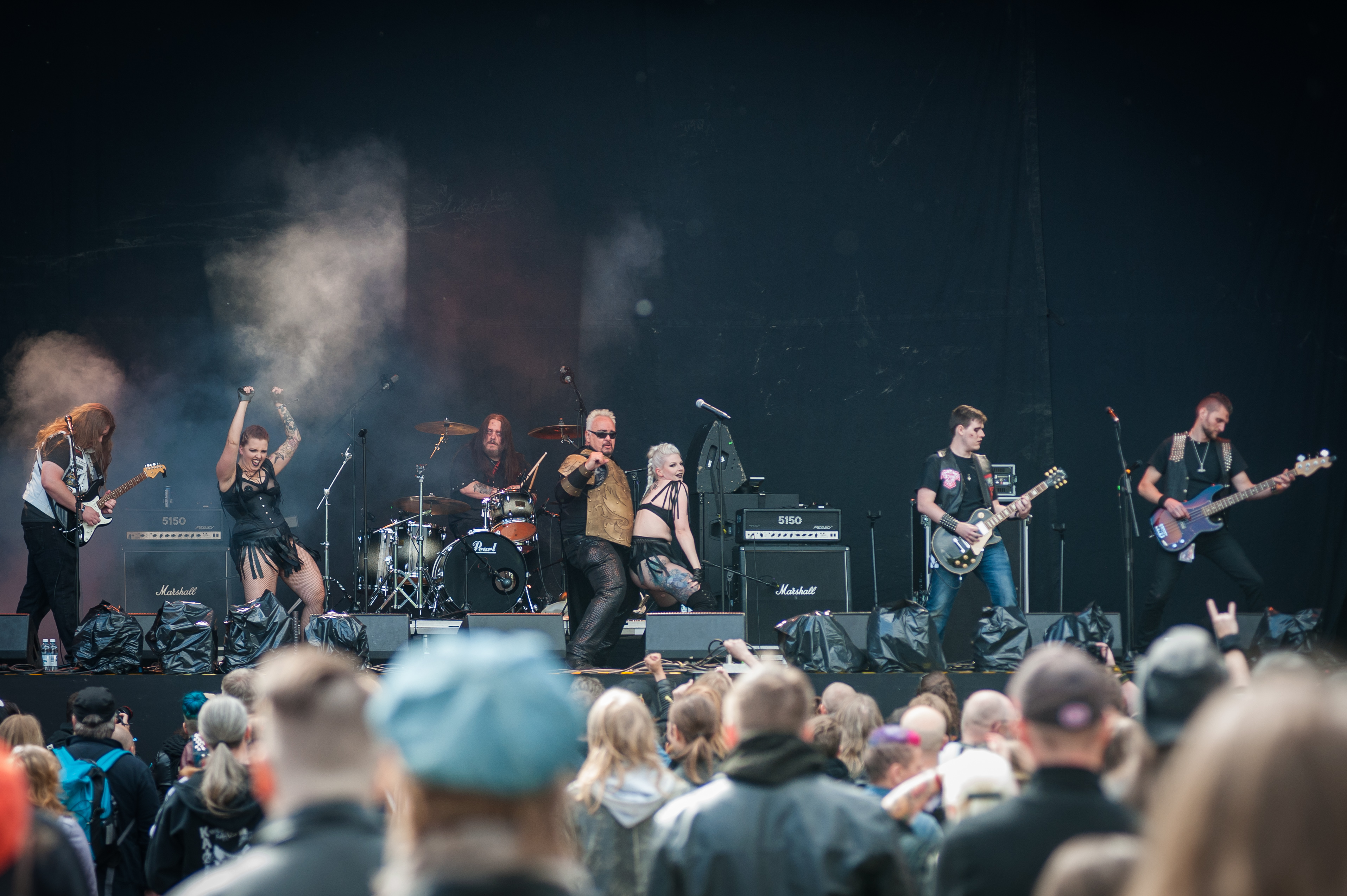 Canadian heavy metal band Thor performing at the 2018 South Park festival in Tampere, Finland.